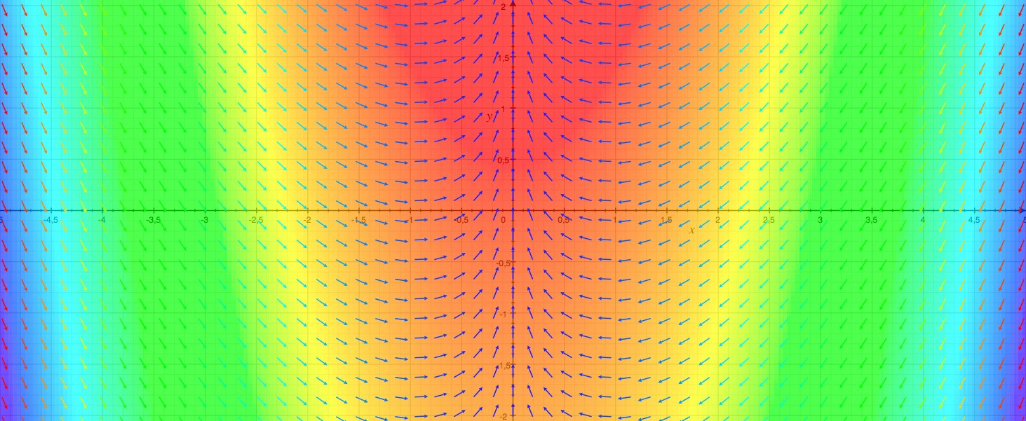 A R2 → R function as a scalar field and its gradient represented as a vectorial field